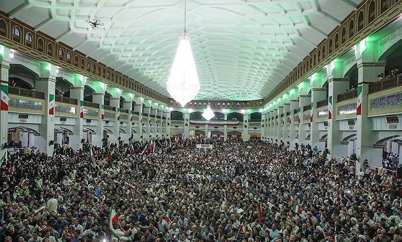 Ebrahim Raisi supporters rally for 2017 presidential election at Tabriz